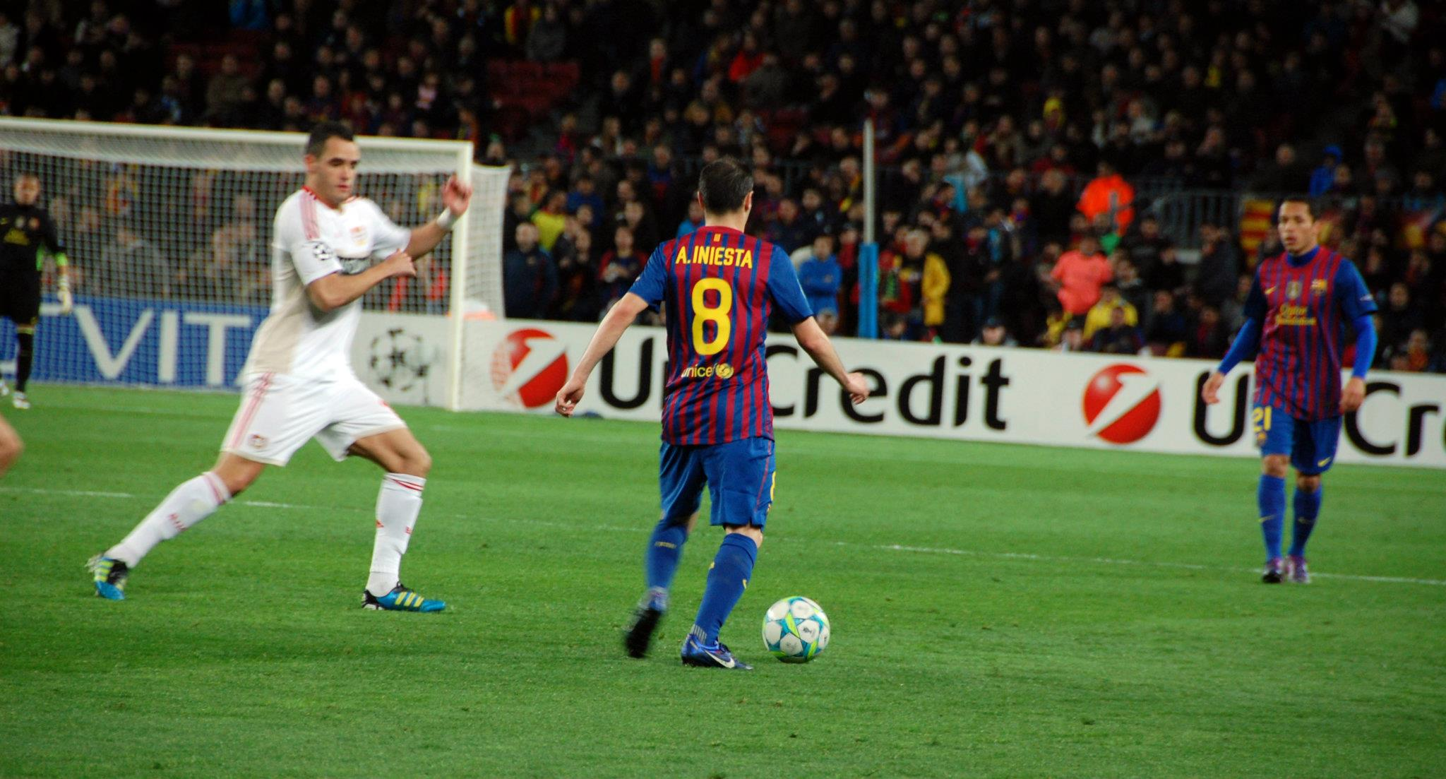 FC Barcelona - Bayer 04 Leverkusen, 1/8 Final UEFA Champions League, Season 2011/2012